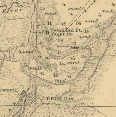 Excerpt of Chart LS33: North End of Lake Michigan Including Green Bay and the Straits of Mackinac (1867) showing the southern end of Green Bay before dredging of the current channel and erection of the Grassy Island Range Lights